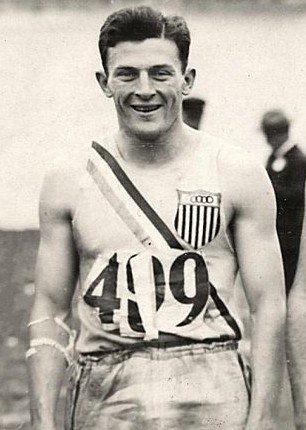 Ray Barbuti, US olympic champion